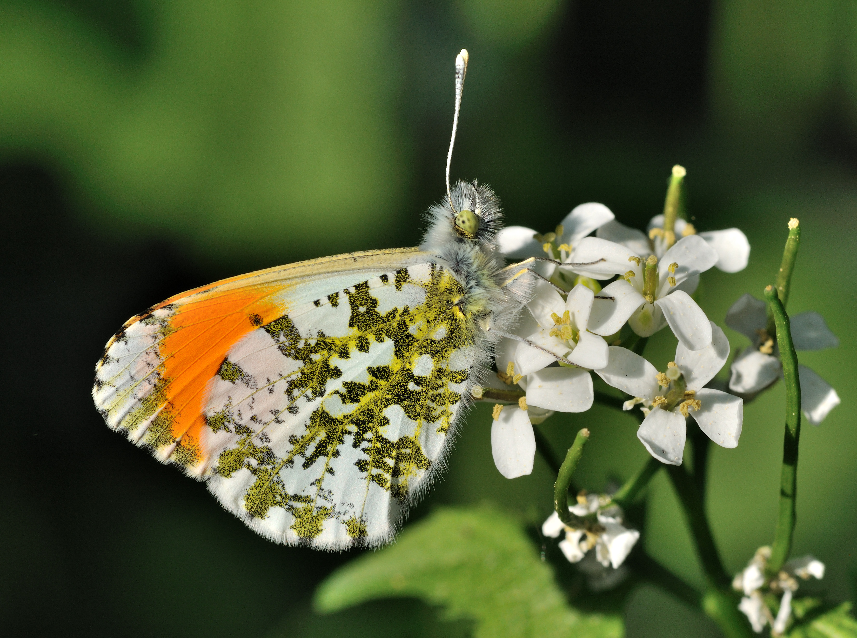 Side view of a male Orange Tip (Anthocharis cardamines) on Garlic mustard (Alliaria petiolata) in Ahlen, Germany.